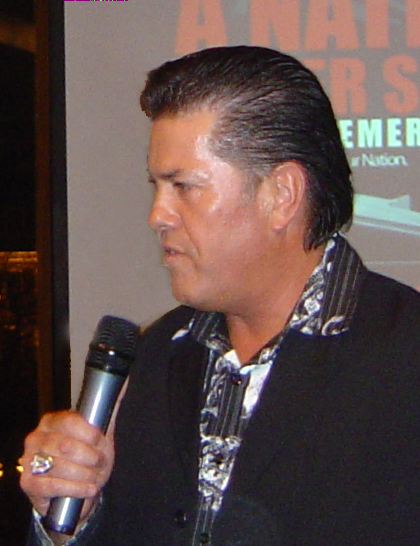 This photo was taken in Christchurch during a tour called "A Nation Under Siege" organised by Destiny New Zealand.